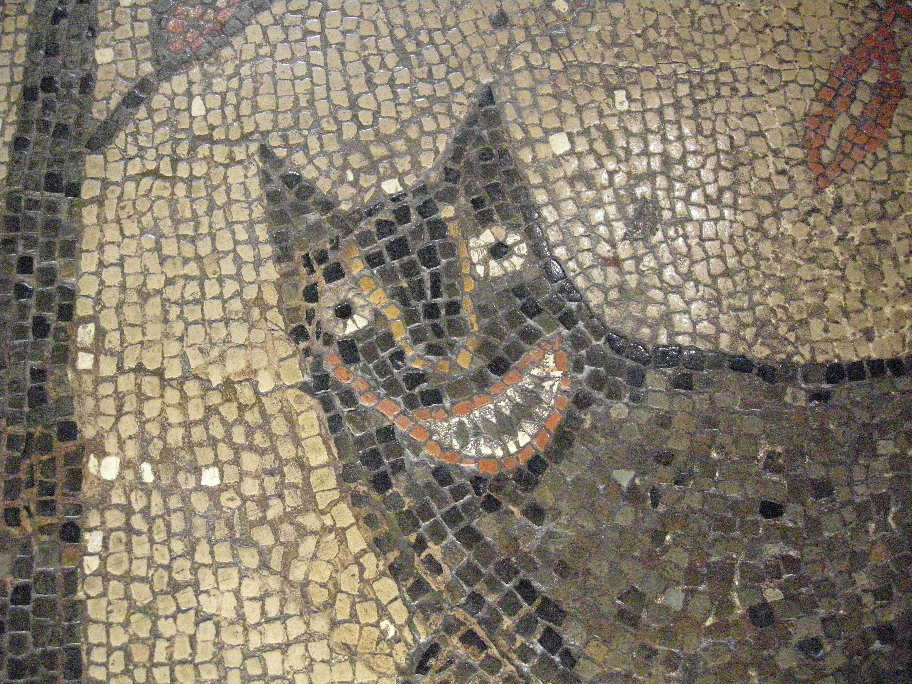 Roman floor mosaic illustrating the Romulus and Remus myth. Discovered at Aldborough (Isurium Brigantum) near Leeds, North Yorkshire (formerly West Riding), UK. Exhibited at Leeds City Museum.